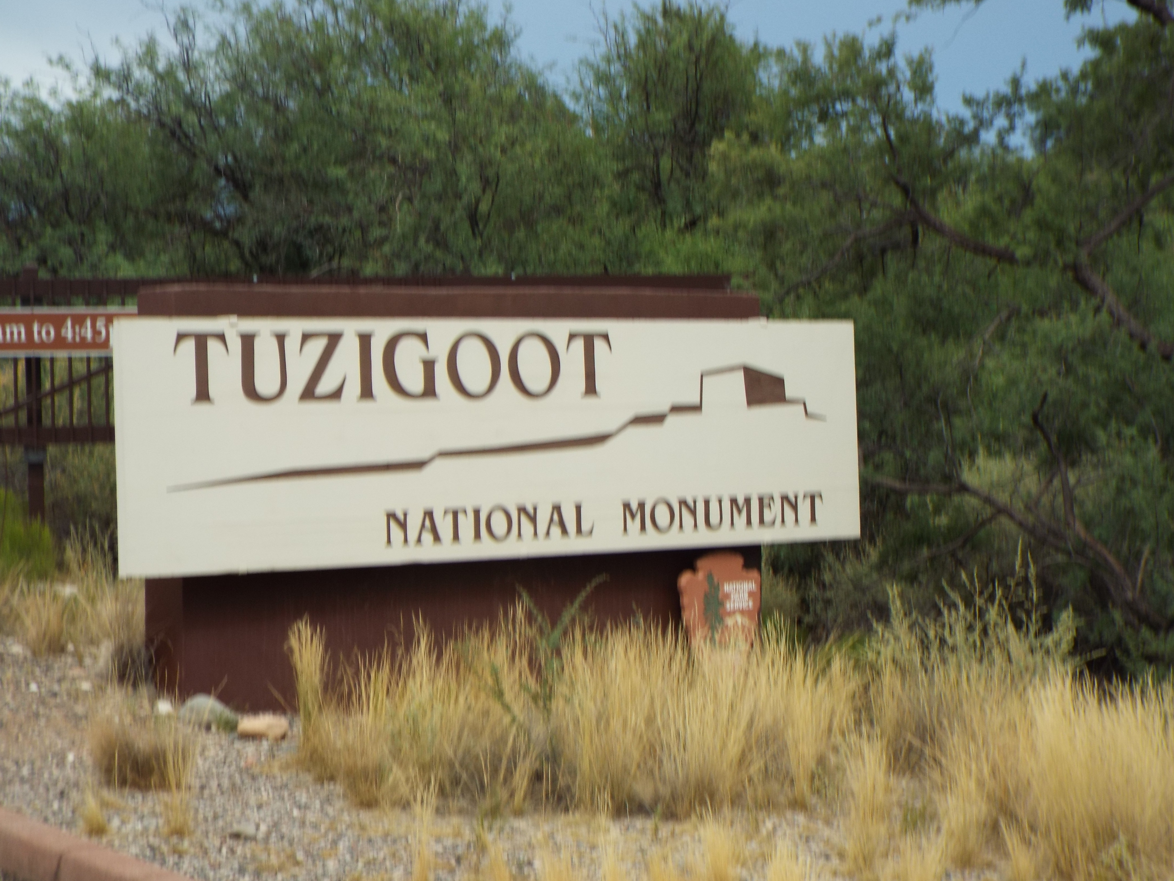 Entrance to Tuzigoot National Monument in Clarkdale, Az.